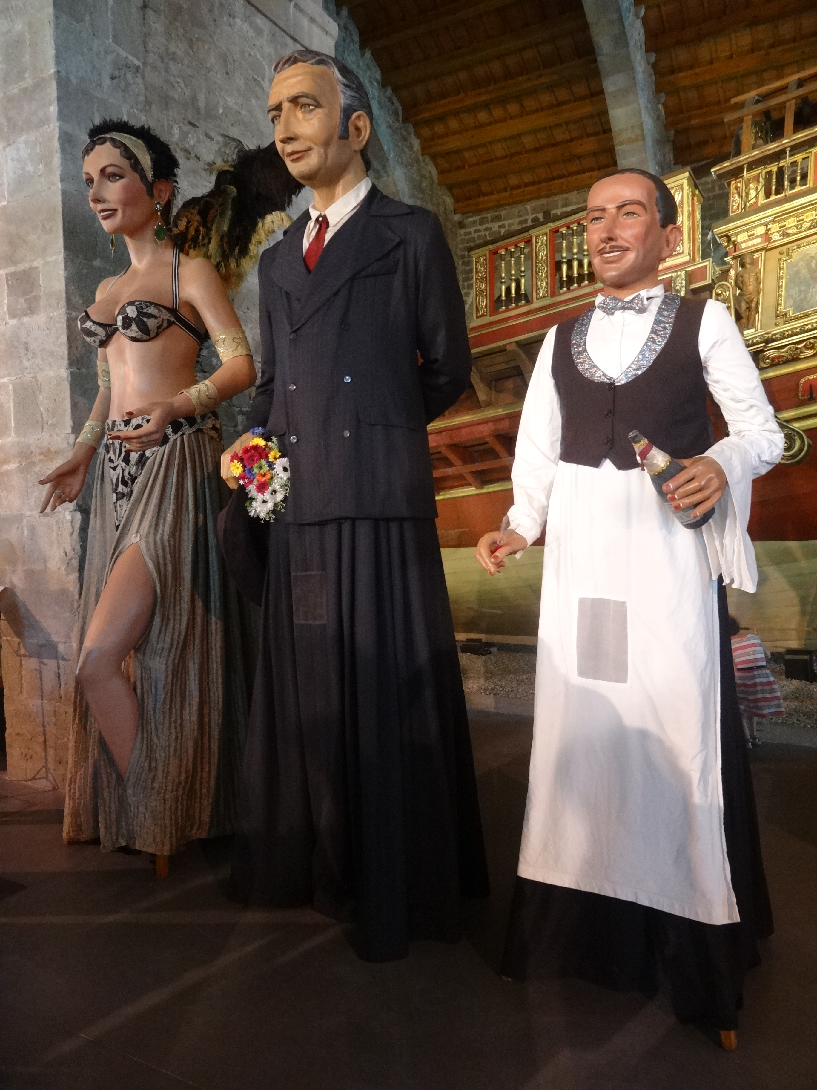 Exhibition of Giants at the Museu Marítim, Barcelona, 2013.